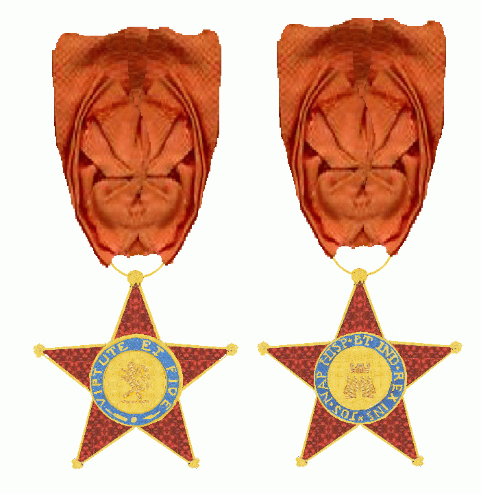 Orden Real de España Royal Order of Spain (Joseph Bonaparte)